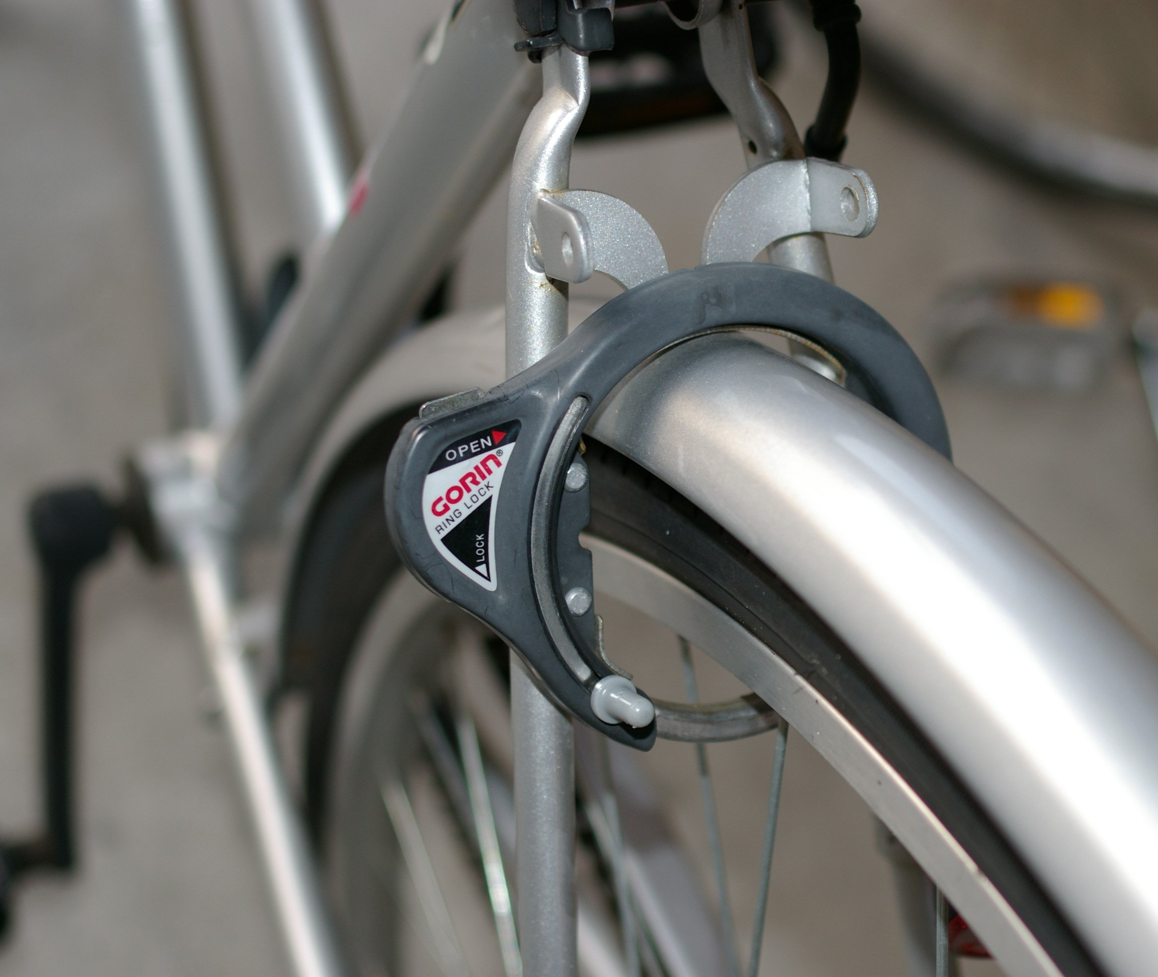 An O-lock on a bike, as seen in Japan. This just prevents the rear wheel from moving, and is the only lock on the bike. There is nothing securing this bike in place.